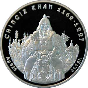 Reverse 100 Tenge coin depicting Genghis Khan